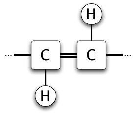 Schematic detail of adjoining unsaturated carbon atoms in trans configuration.